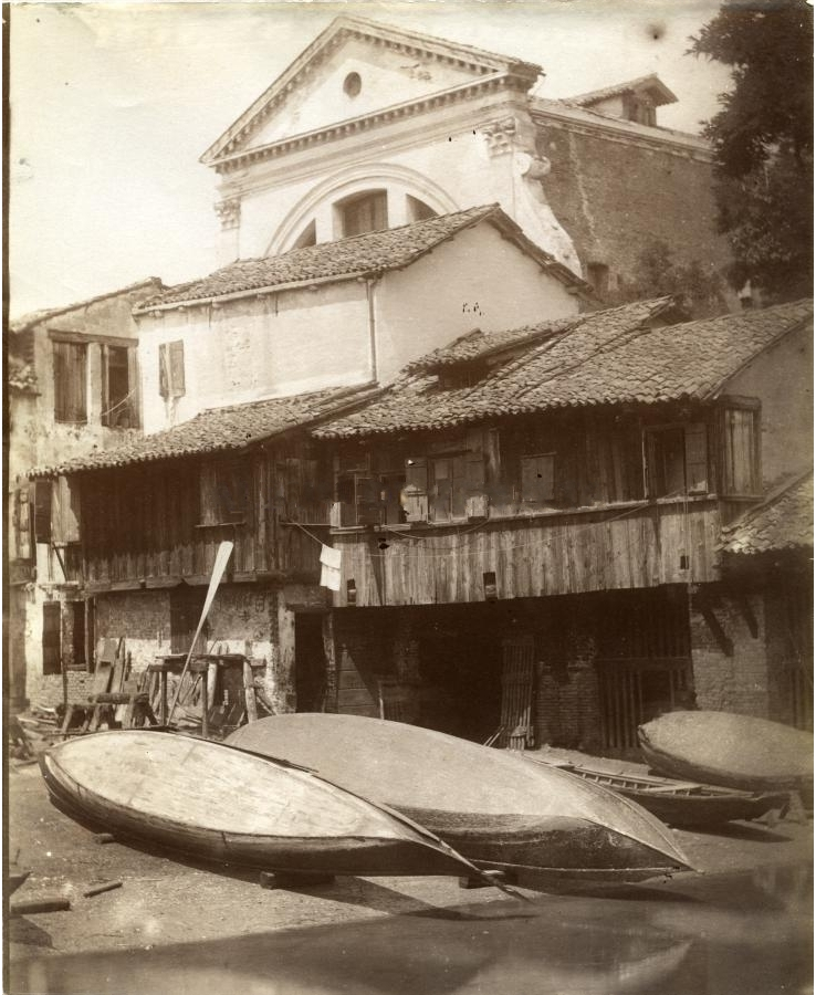 Photo by Paolo Salviati - 1894, Rio di San Canciano - Palazzo Widmann Rezzonico Cannaregio VENICE